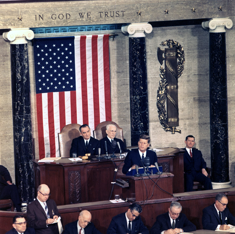 John F. Kennedy delivers State of the Union Address, 1963. Seated behind him are Vice President Lyndon Johnson and Speaker of the House John McCormack.